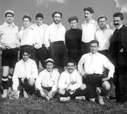 Italian Football Champion 1908 (SG Pro Vercelli) From Left to Right: Back: Romussi, Angelo Binaschi, Guido Ara, Marcello Bertinetti, Giovanni Innocenti, Giuseppe Milano I, Pietro Leone, ? Front: Felice Milano II, Vincenzo Celoria, Annibale Visconti, Carlo Rampini I.